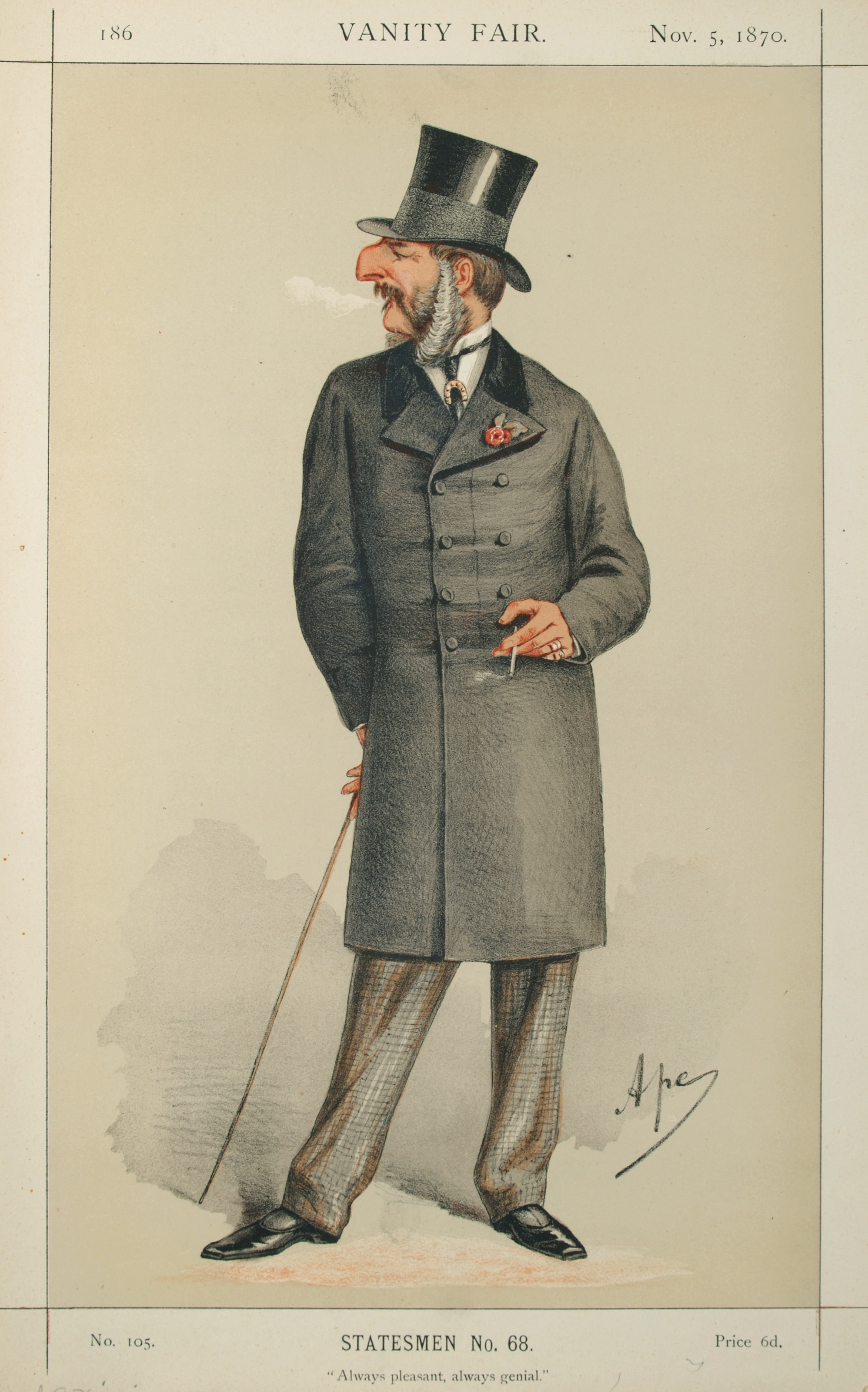 Statesmen No.68: Caricature of The Hon John Cranch Walker Vivian; brother of Baron Vivian. Caption reads: "Always pleasant, always genial."